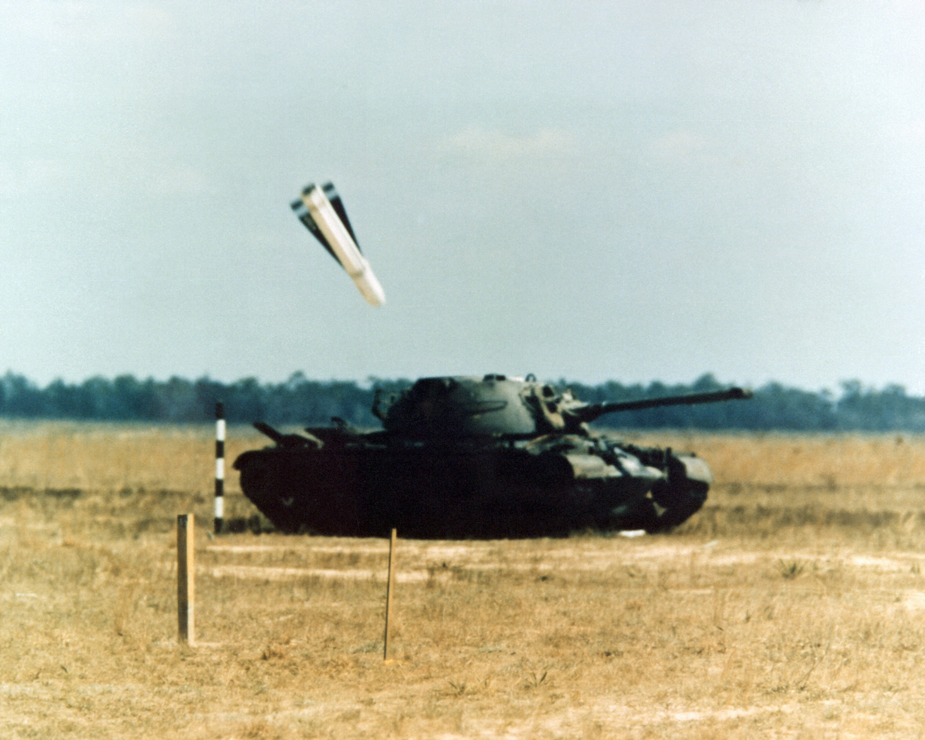 AGM-65 moments before impacting on an M-48 tank.